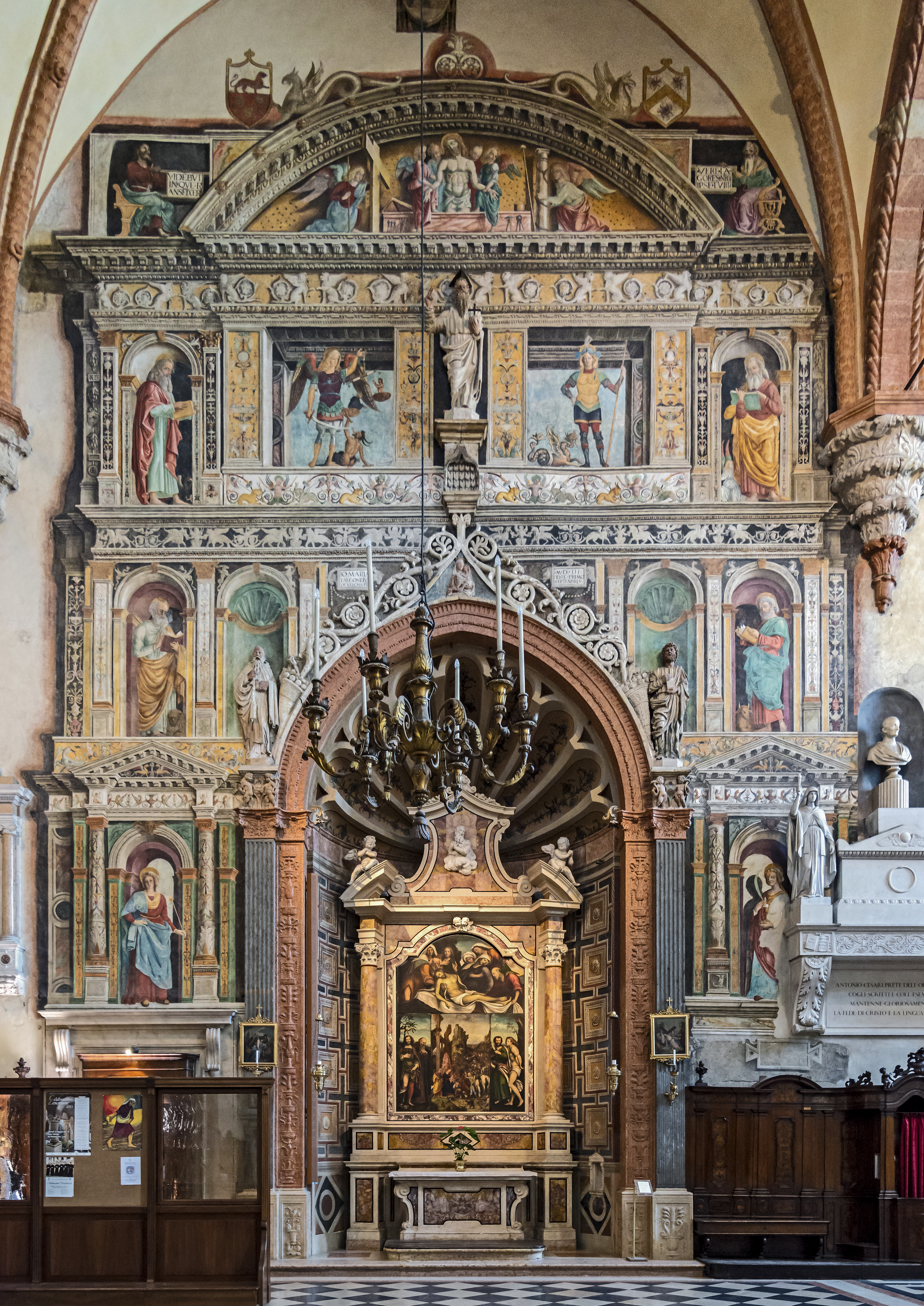 Cathedrale Santa Maria Matricolare. Calcasoli chapel dedicated to St. Anthony of Vienna. Frescoes by Giovanni Maria Falconetto, signed and dated 1503. On the altar eighteenth composite assembly of works: in the middle Adoration of the Magi by Liberale da Verona; Niccolo Giolfino belong to the three paintings on canvas: on the left St. Rocco and St. Anthony, right Saints Sebastian and Bartholomew, top Deposition.